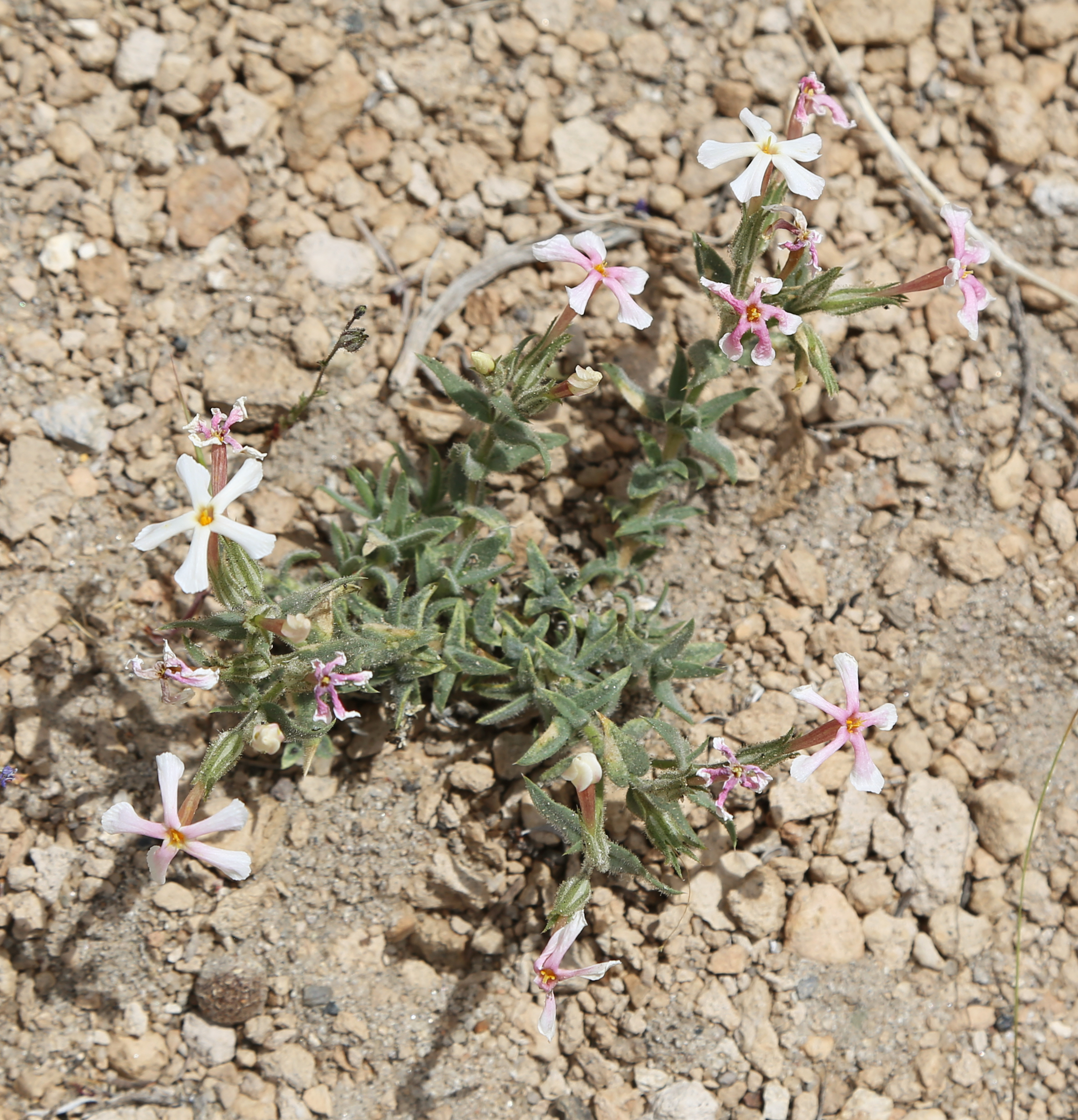 Phlox stansburyi (Stansbury's phlox), small plant on gravel, showing hairy leaves, buds, and white or pink-tinged flowers with 5 narrow, spoon-shaped petals. Swall Meadows, Mono County, California, along Lower Rock Creek road at 6,100 ft (1,900 m) in the Eastern Sierra Nevada.